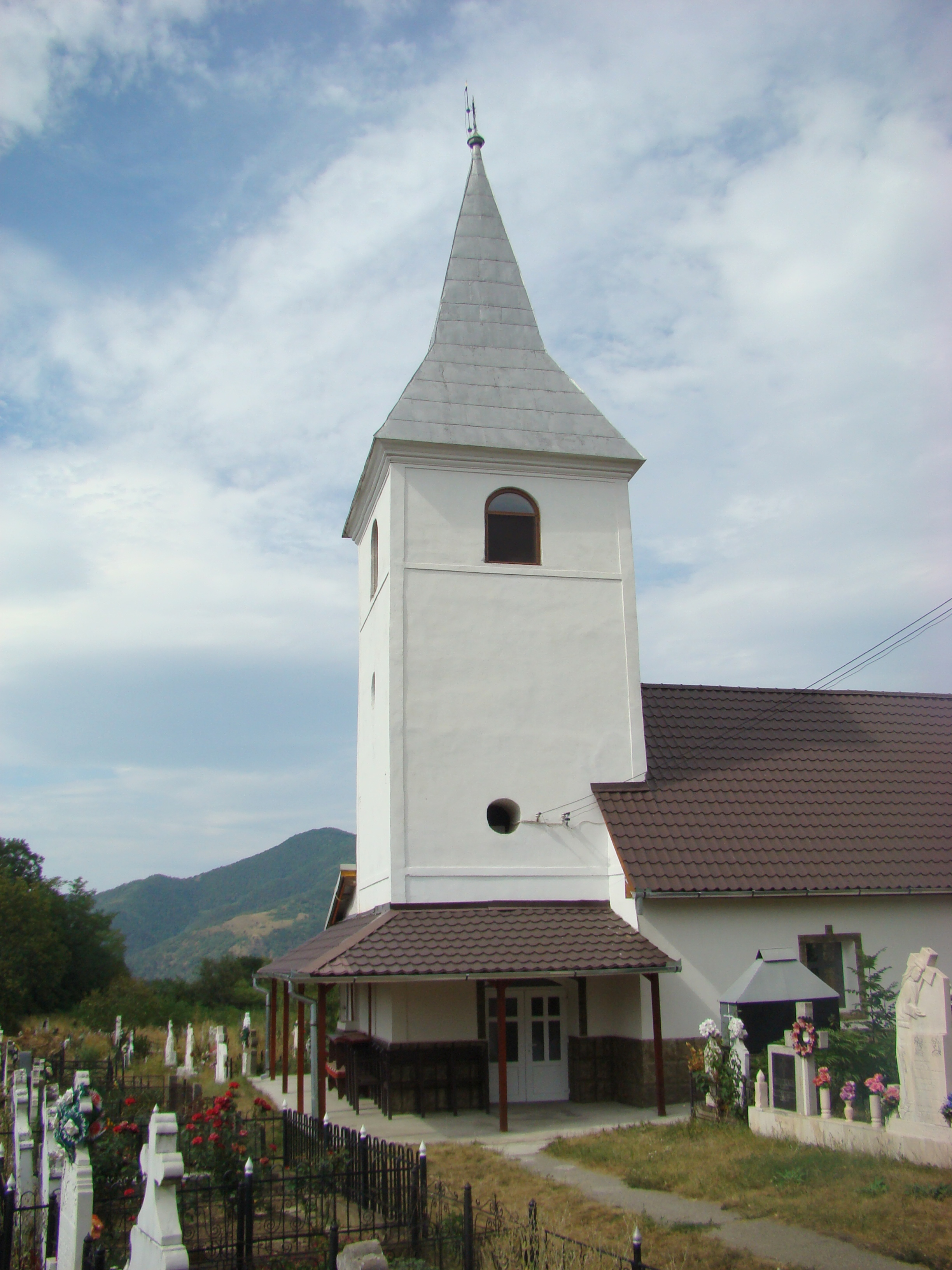 Orthodox church in Râu Alb, Hunedoara county, Romania